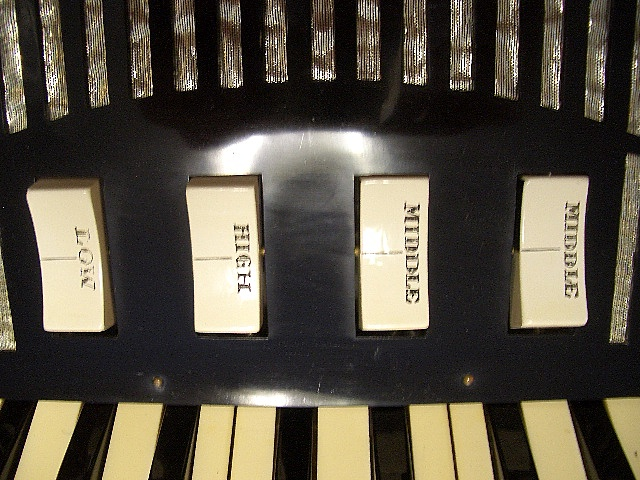 Two-way rocker switches (labeled LOW, HIGH, MIDDLE, MIDDLE) controlling individual reed ranks for the treble keyboard of an Excelsior model "00" accordion.